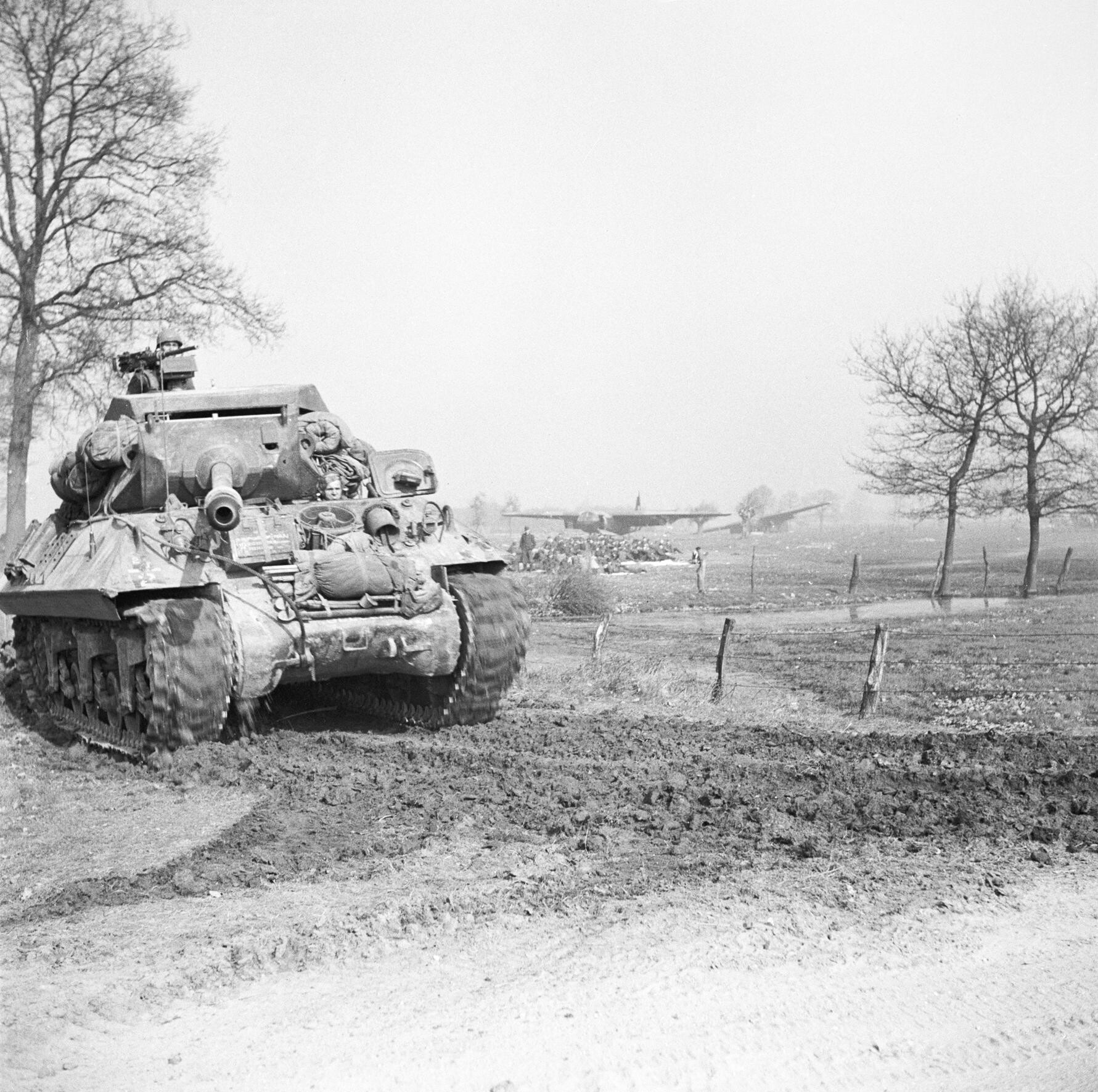 IWM caption : Crossing the Rhine 24 -31 March 1945: An Achilles tank destroyer on the east bank of the Rhine moves up to link with airborne forces whose abandoned gliders can be seen in the background.